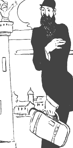 Namila Neamului Românesc ("The Fright of Neamul Românesc Newspaper", or "The Fright of the Romanian Nation"). The proverbially tall historian, nationalist agitator and newspaper owner Nicolae Iorga is moving out of his own, and finds that the only Bucharast building which can accommodate him is the firemen's vantage point, Foişorul de Foc.